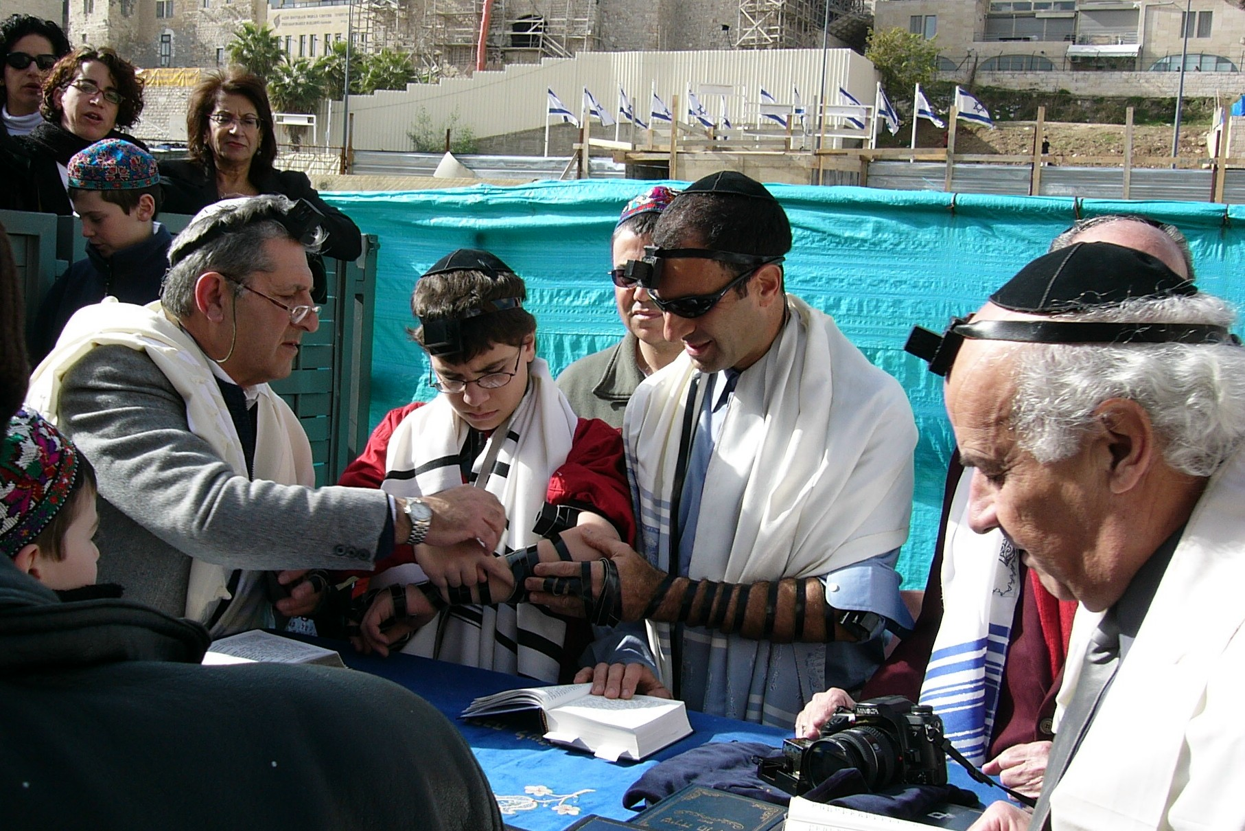 Tefillin. Taken by myself in Jerusalem at the Western Wall in Dec. 2003